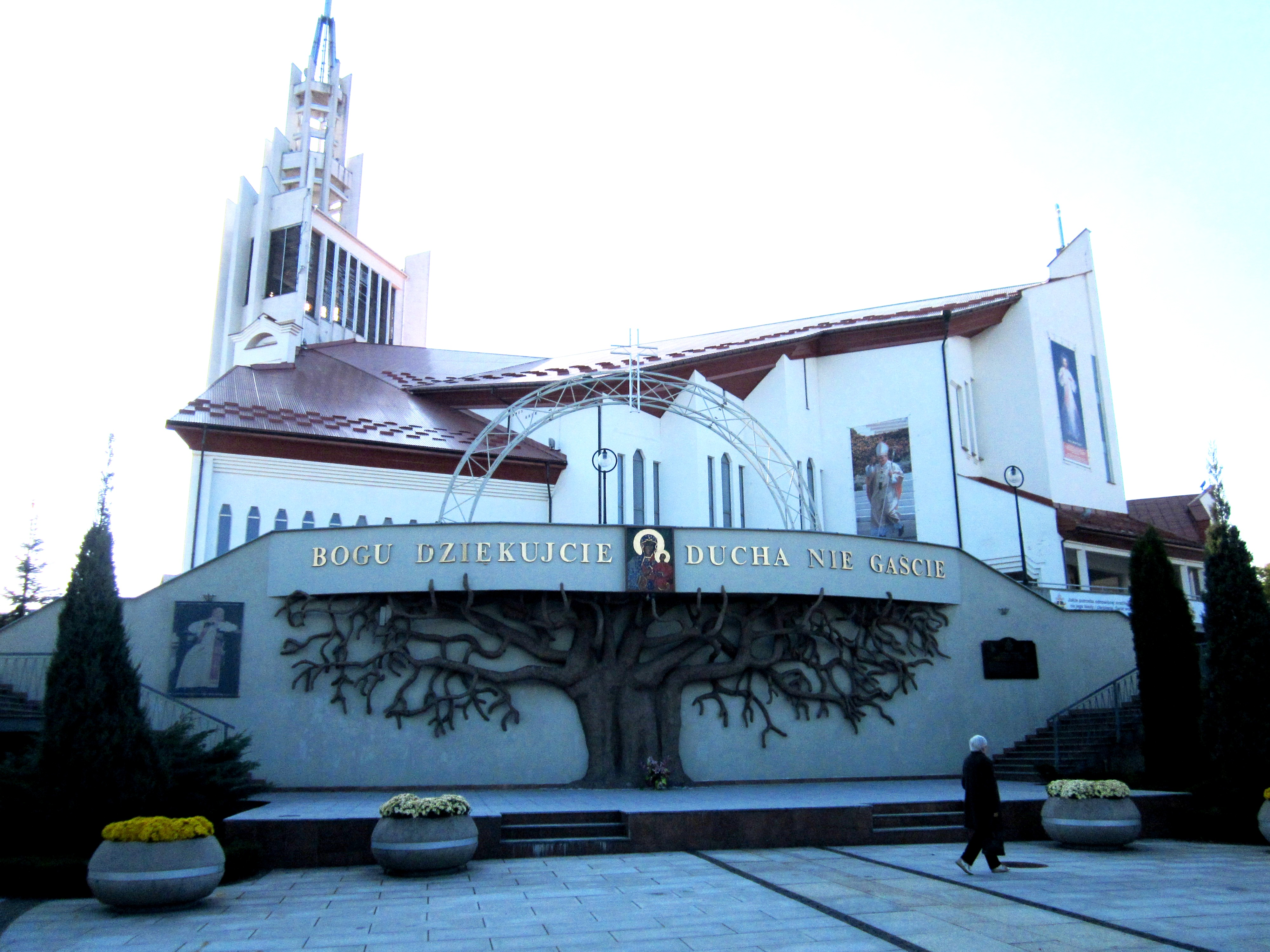 The papal altar (John Paul II) at Sanctuary of Divine Mercy in Białystok..